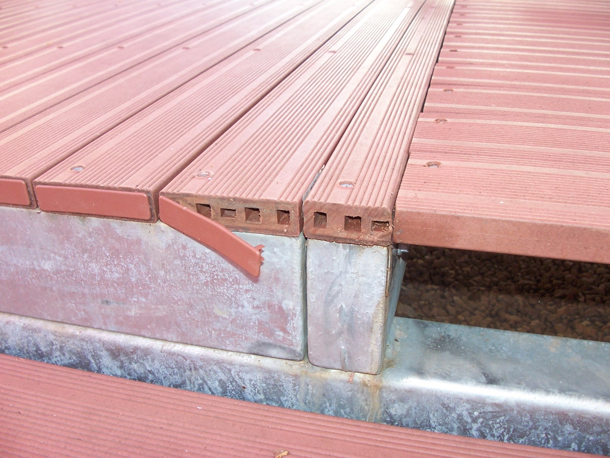 Photograph by Bill Bradley. billbeee 20:36, 26 April 2007 (UTC) Feel free to use it, just credit me as the photographer. You can contact me through my website my website There is a page on decking and a personal view on using MDF